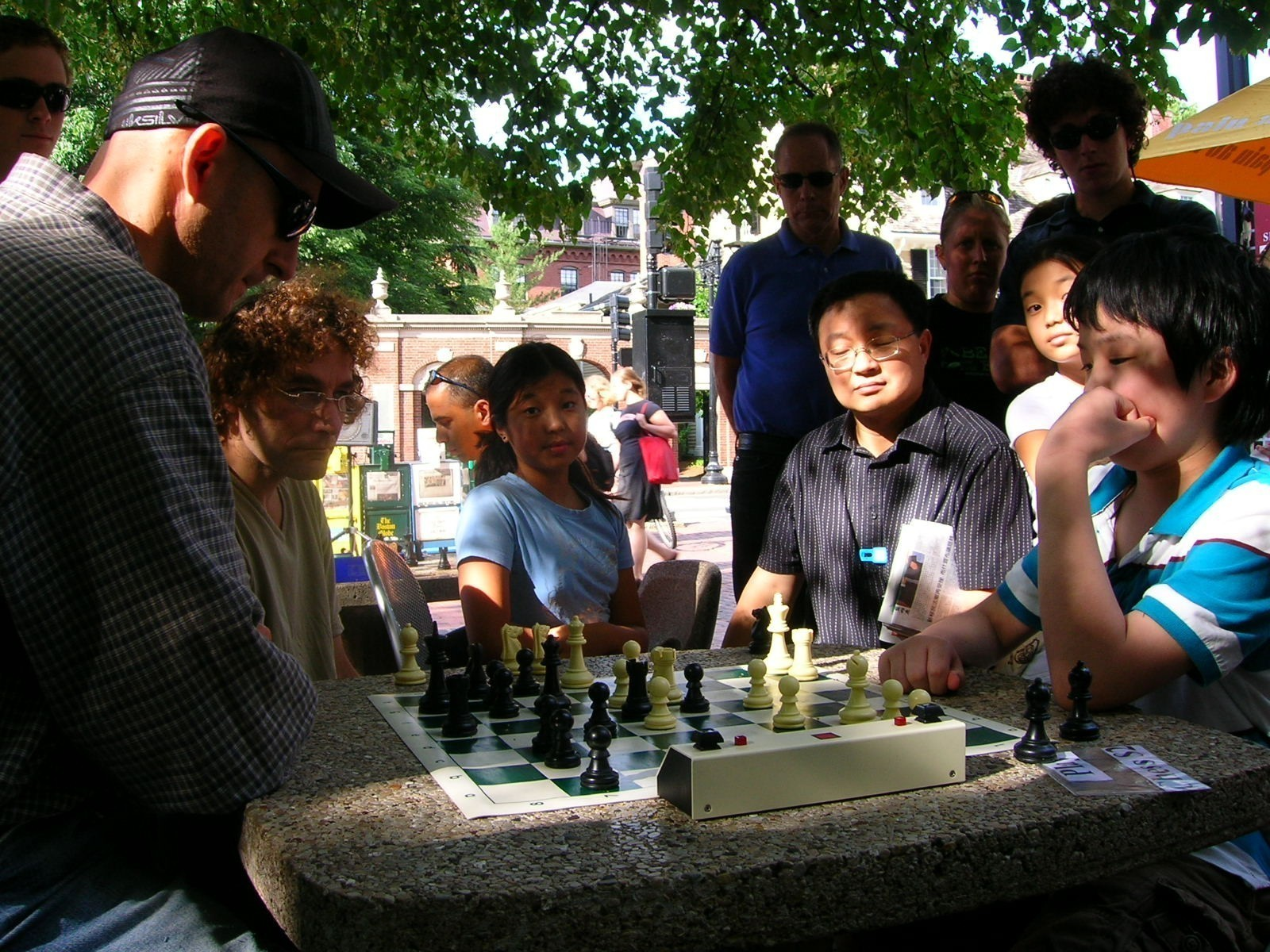 Dean Metrovich (left, in sunglasses) teaches chess in Harvard Square, Cambridge, Massachusetts, USA